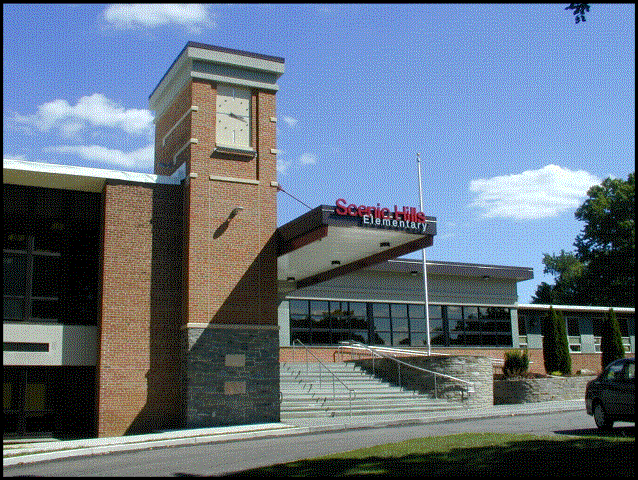 SSDCOUGARS